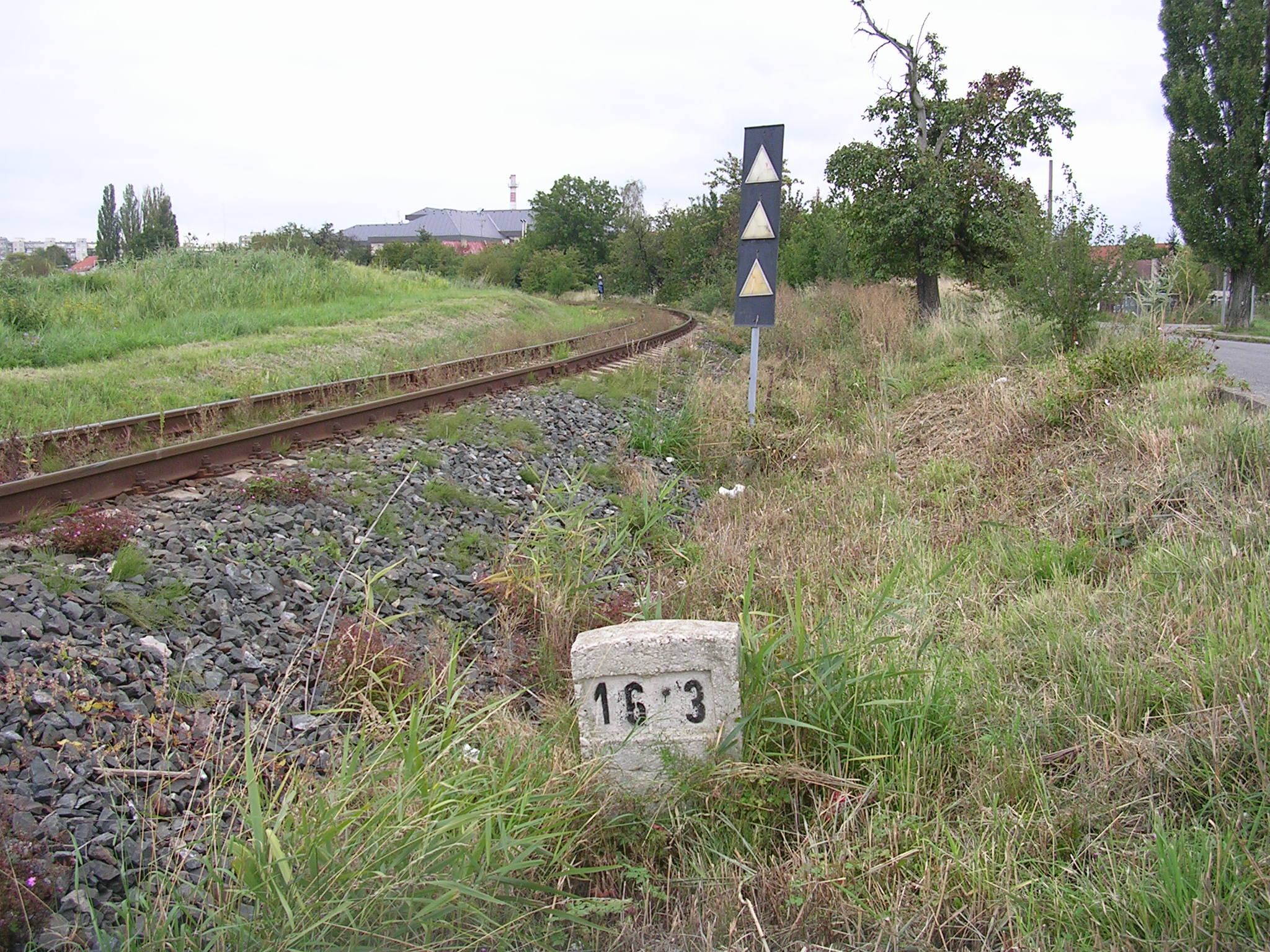 Prague, Zličín.